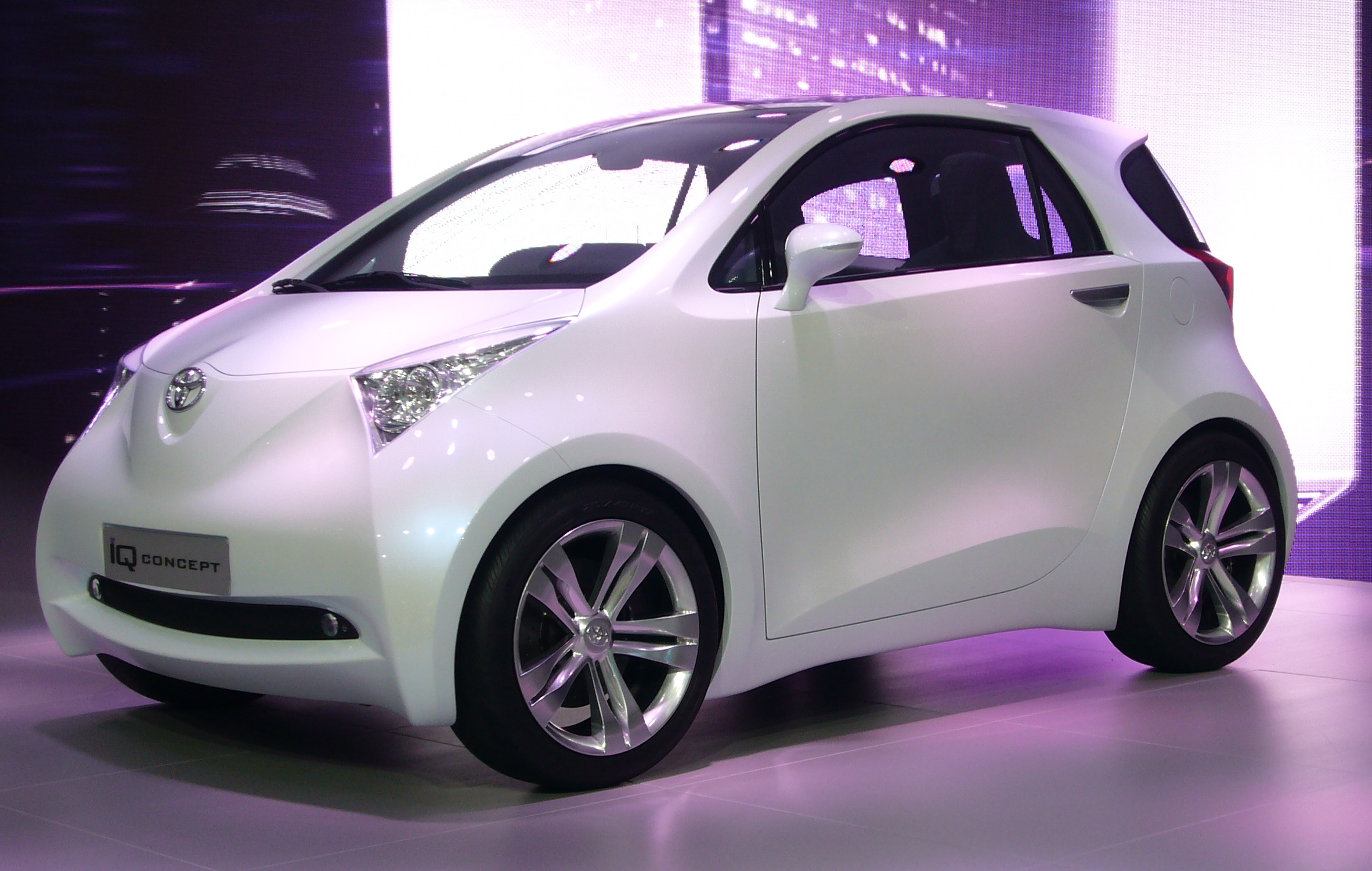 Toyota iQ Concept at IAA Frankfurt 2007